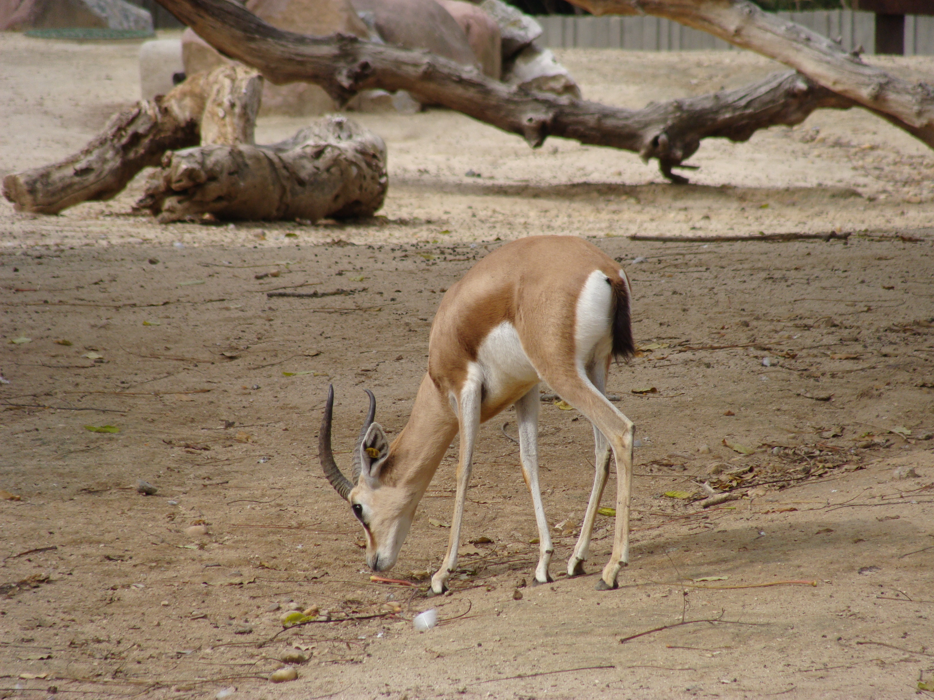 Gazella dorcas neglecta (Dorcas gazelle) in the Zoo de Madrid, Spain.